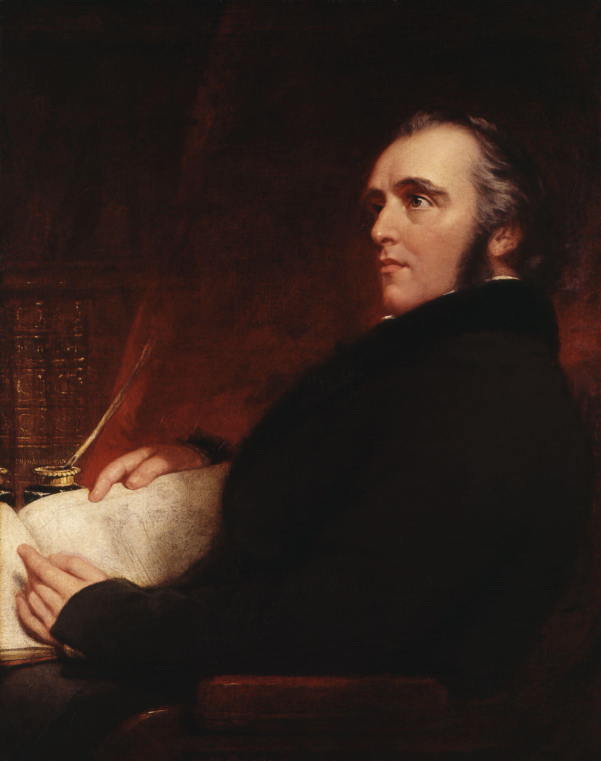 Thomas Babington Macaulay, Baron Macaulay, by John Partridge (died 1872), given to the National Portrait Gallery, London in 1910. All images in this batch have been confirmed as author died before 1939 according to the official death date listed by the NPG.